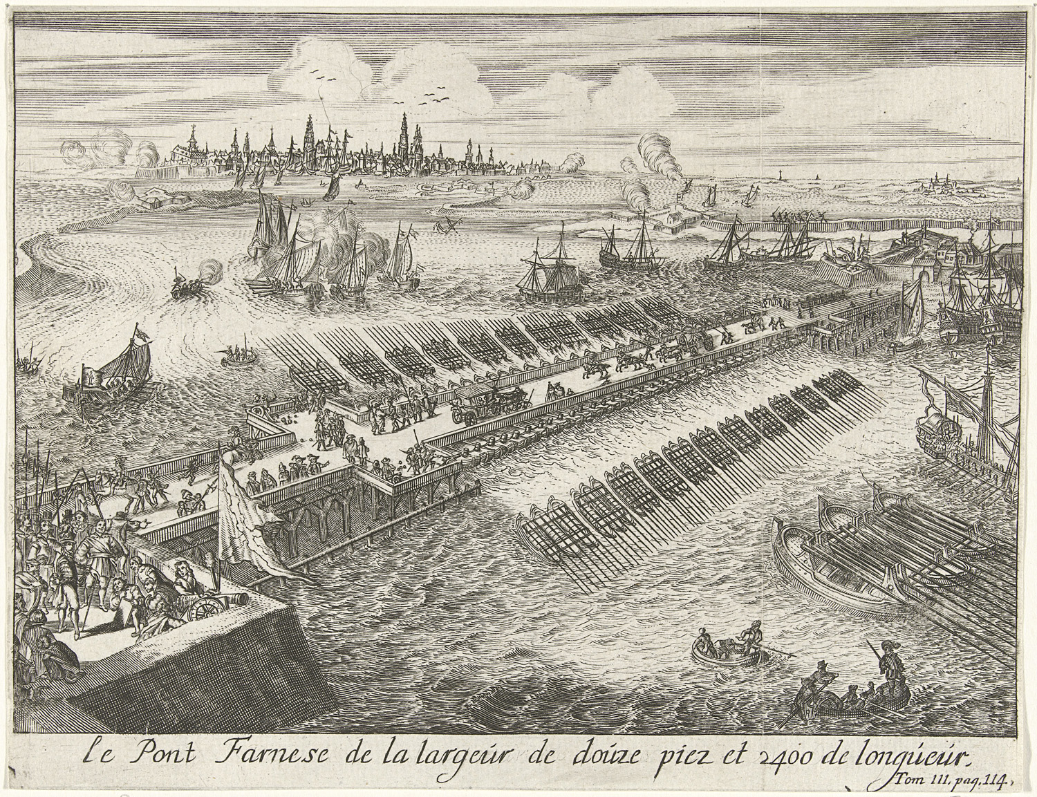 Parma's bridge over the Scheldt in 1585, built of ships. De schipbrug aangelegd door de hertog van Parma over de Schelde, 1585. Links voor keurt Parma het ontwerp voor de schipbrug goed. In de verte de stad Antwerpen. Rijtuigen en soldaten gaan over de voltooide brug.